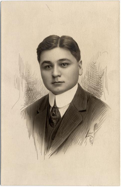 Black and white photographic portrait of Henry Roe Cloud, Native American member of Yale College Class of 1910, possibly taken as a Yale class portrait. Image courtesy of the Yale University Manuscripts & Digital Images Database, Yale University, New Haven, Connecticut.